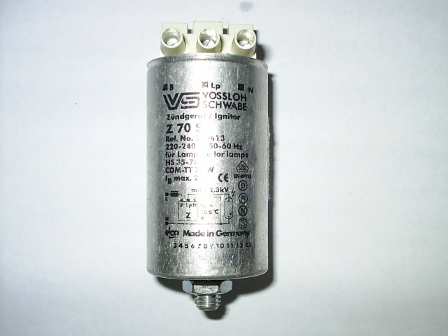 Ignitor VS for 70W